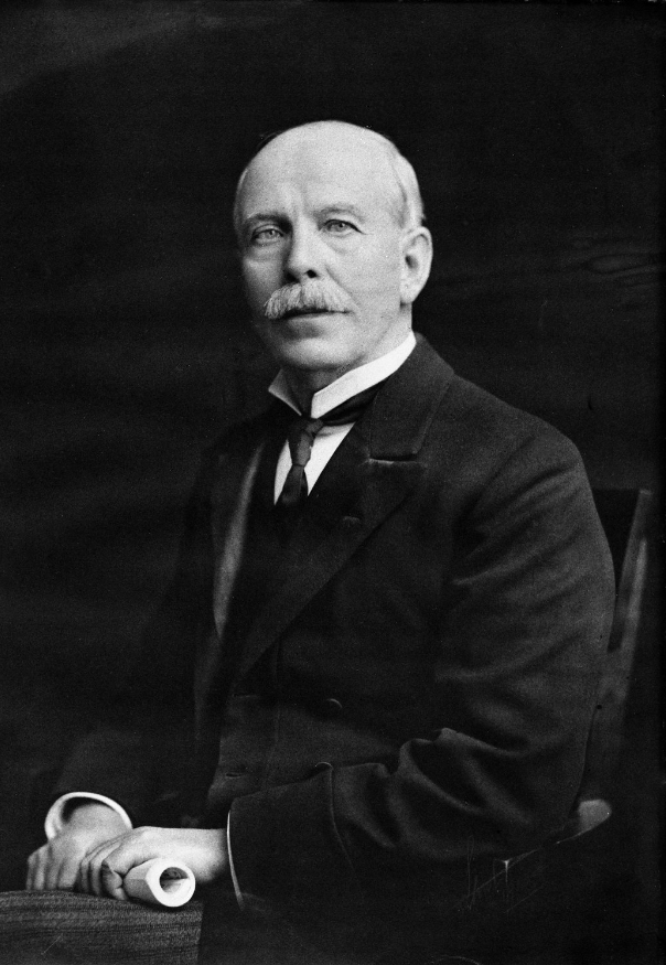 Samuel T. Black, president of the San Diego Normal School. The school would later expand and change names several times until deciding on the current name, San Diego State University.